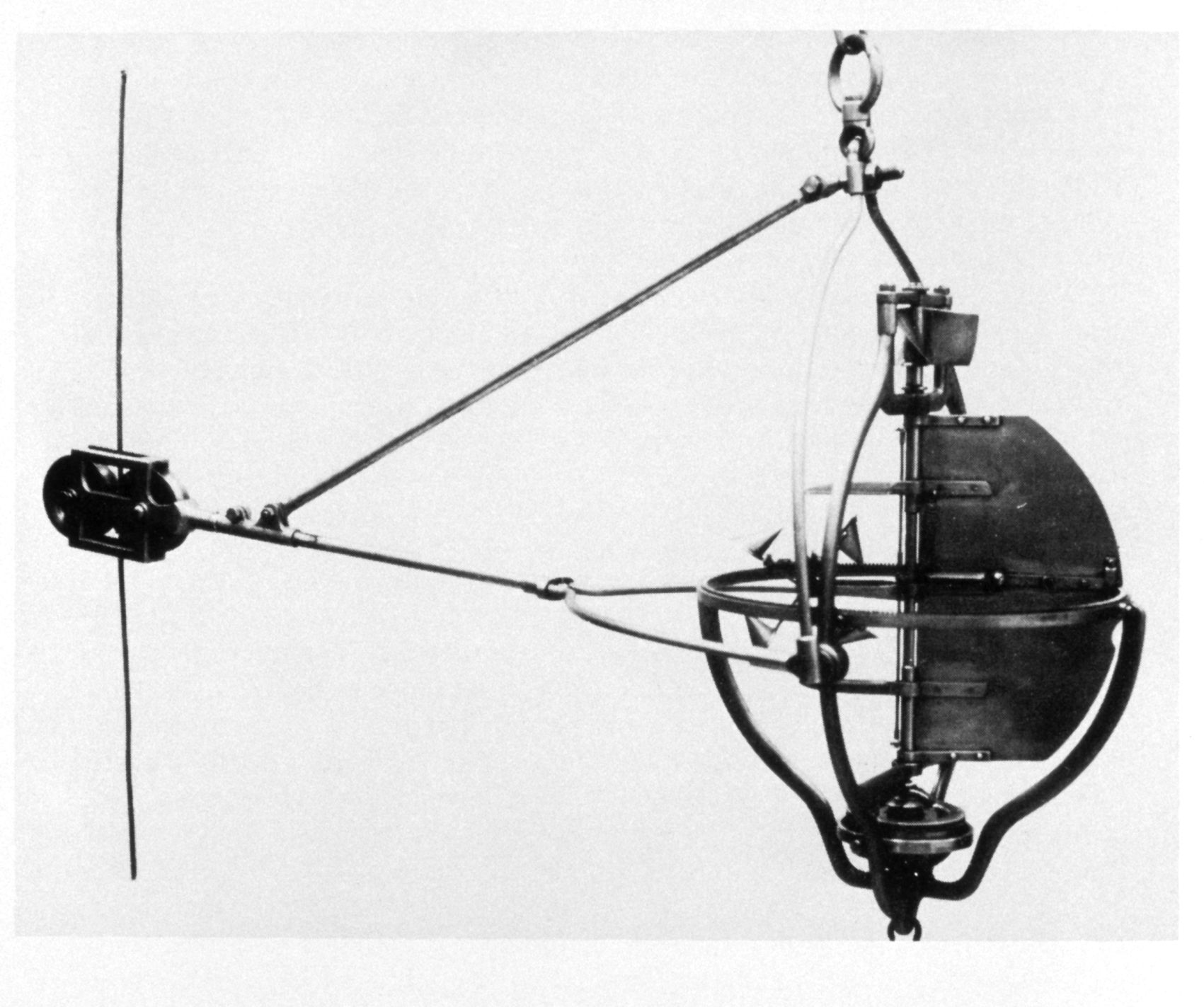 Pillsbury Current Meter, devised in 1876 by Lieut. John Elliott Pillsbury, USN, and used in an extensive study of the Gulf Stream studies beginning in 1876. But it was not until 1885 that Pillsbury used this instrument in the Straits of Florida at a depth of 640 meters. He was a naval officer assigned to duty on the Coast and Geodetic Survey Ship "Blake" during these years.